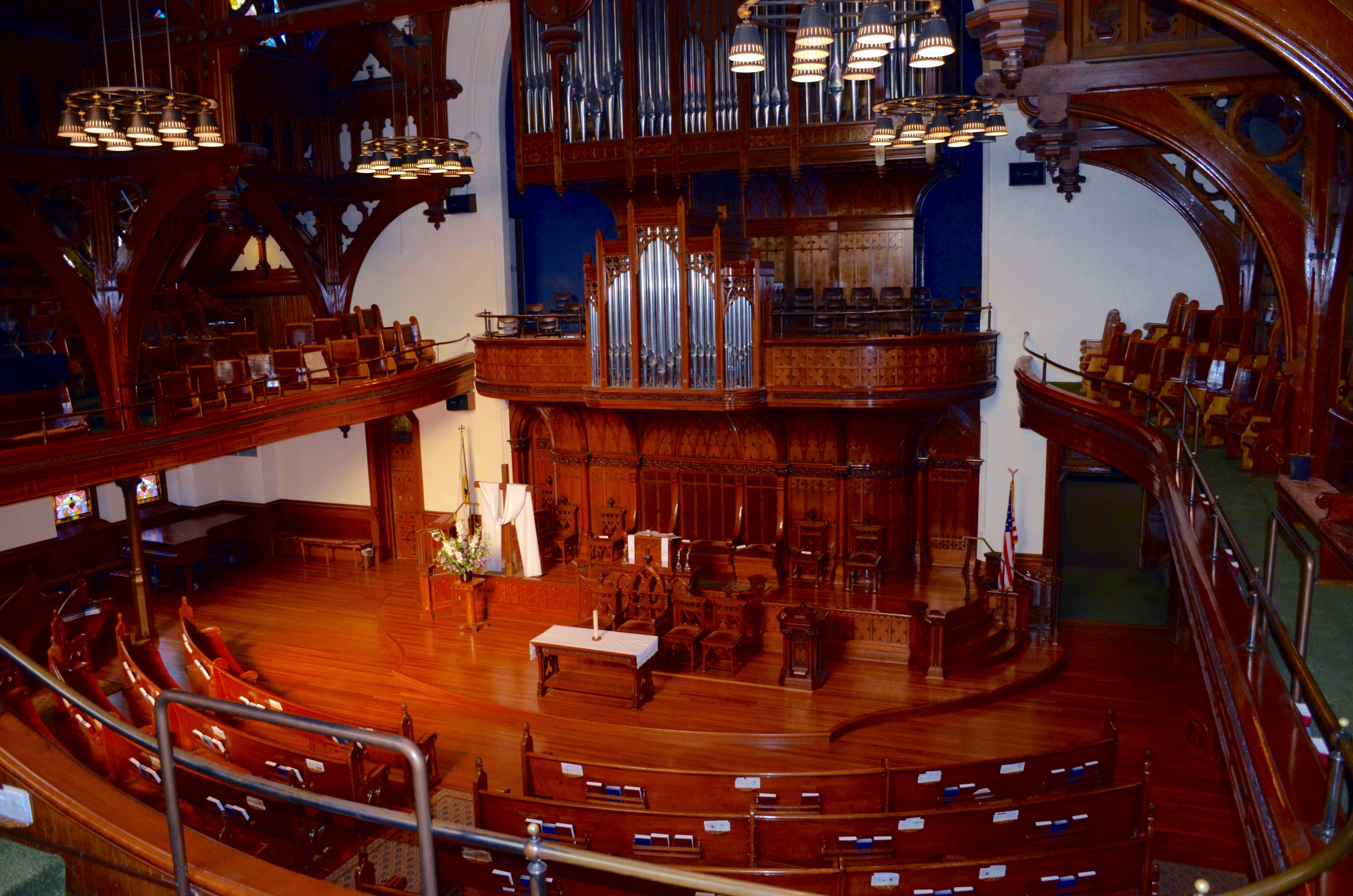 The sanctuary of the First Presbyterian Church of Portland, Oregon, which is listed on the U.S. National Register of Historic Places.